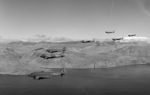 Formation of Douglas Dakota Mark IIIs of No. 267 Squadron RAF based at Bari, Italy, flying along the Balkan coast.